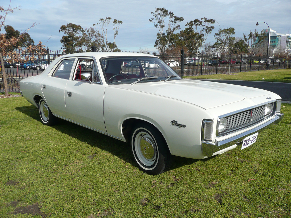 Built from June 1971-May 1973 Engines; 215, 245 or 265 Hemi 6s & 318 or 340 V8s Sedan; Ranger, Ranger XL, Regal, Regal 770 or Pacer VH also in Hardtop, Charger, Wagon or Utility